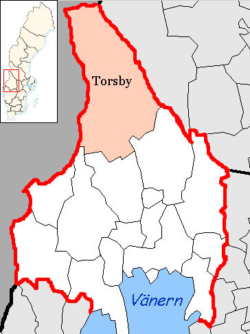 Torsby Municipality in Värmland County Designd by me, based on Image:Värmland County.png